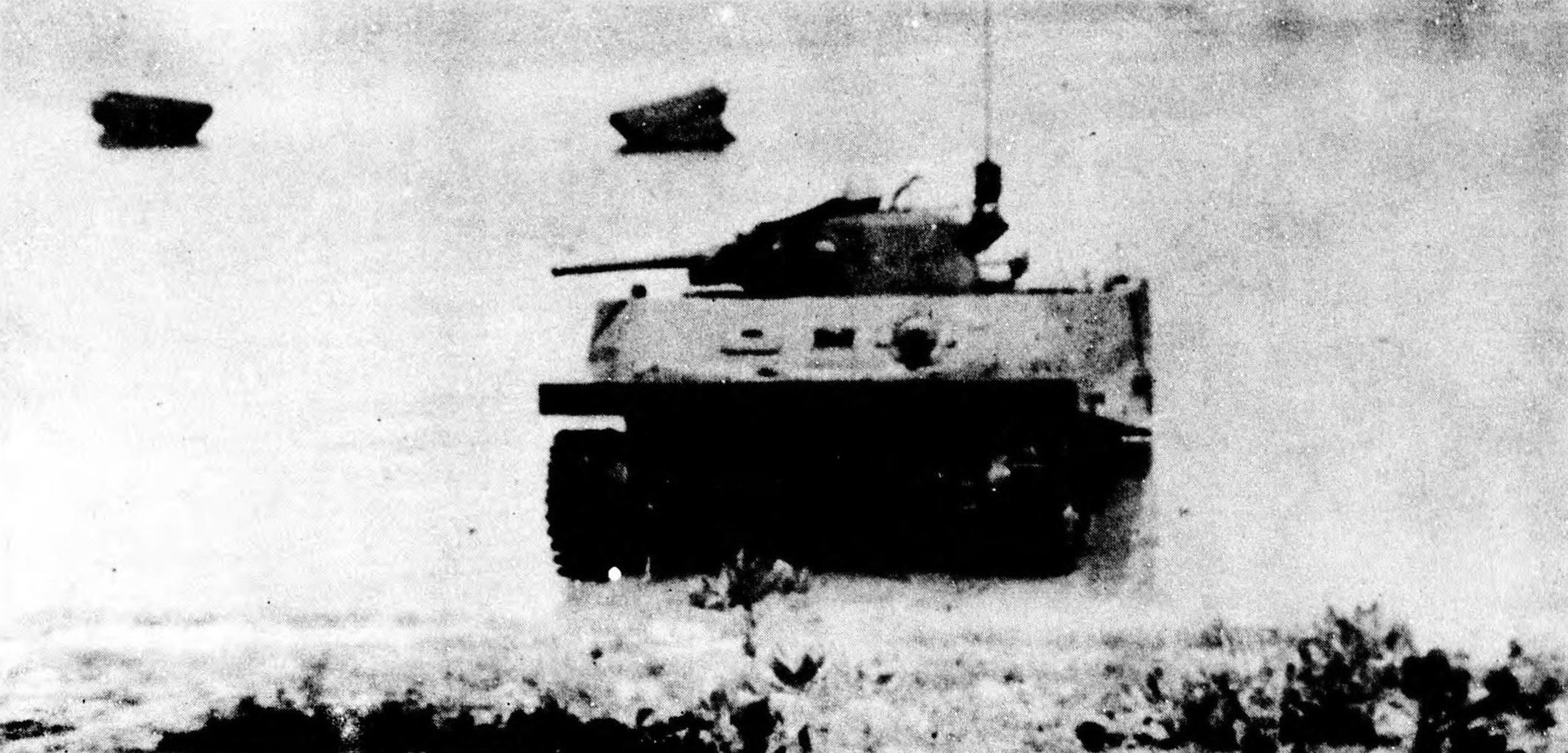 Type 2 Ka-Mi Amphibious tank. The adjacent photos of Japanese amphibious tanks were contained in a Japanese instruction book captured at SAIPAN.